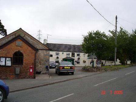 Tremeirchion village centre. Showing the village pub and the Old School ( Hen Ysgol) at Tremeirchion